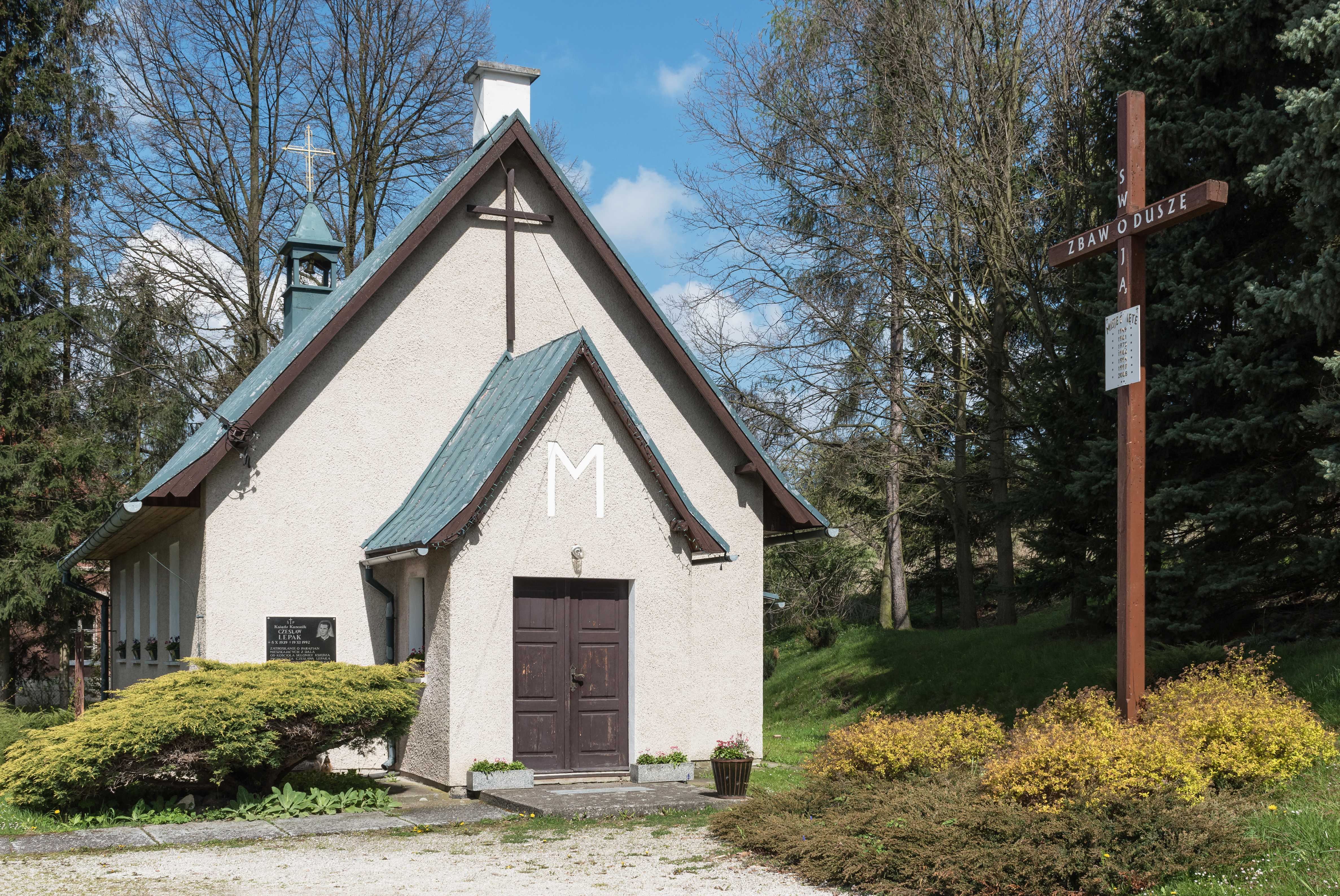 Our Lady chapel in Marcinów